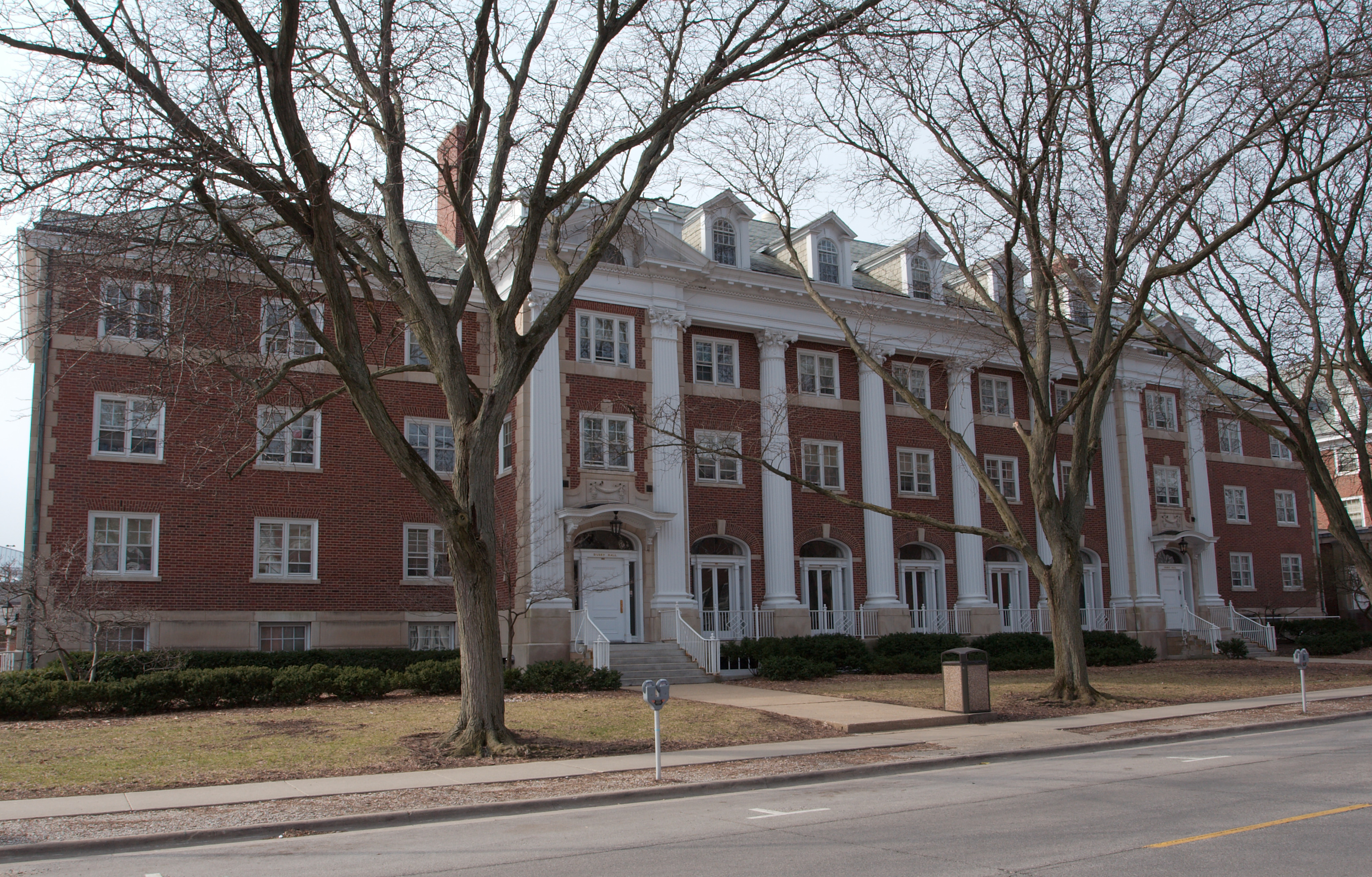 Urbana, IL Women's Residence Hall--West Residence Hall, University of Illinois at Urbana-Champaign (added 2003 - Building - #02001752) 1111W Nevada St., Urbana Historic Significance: Event, Architecture/Engineering Architect, builder, or engineer: White, James, Platt, Charles Architectural Style: Classical Revival Area of Significance: Social History, Architecture, Community Planning And Development Period of Significance: 1900-1924, 1925-1949, 1950-1974 Owner: State Historic Function: Education Historic Sub-function: Educational Related Housing Current Function: Education Current Sub-function: Educational Related Housing